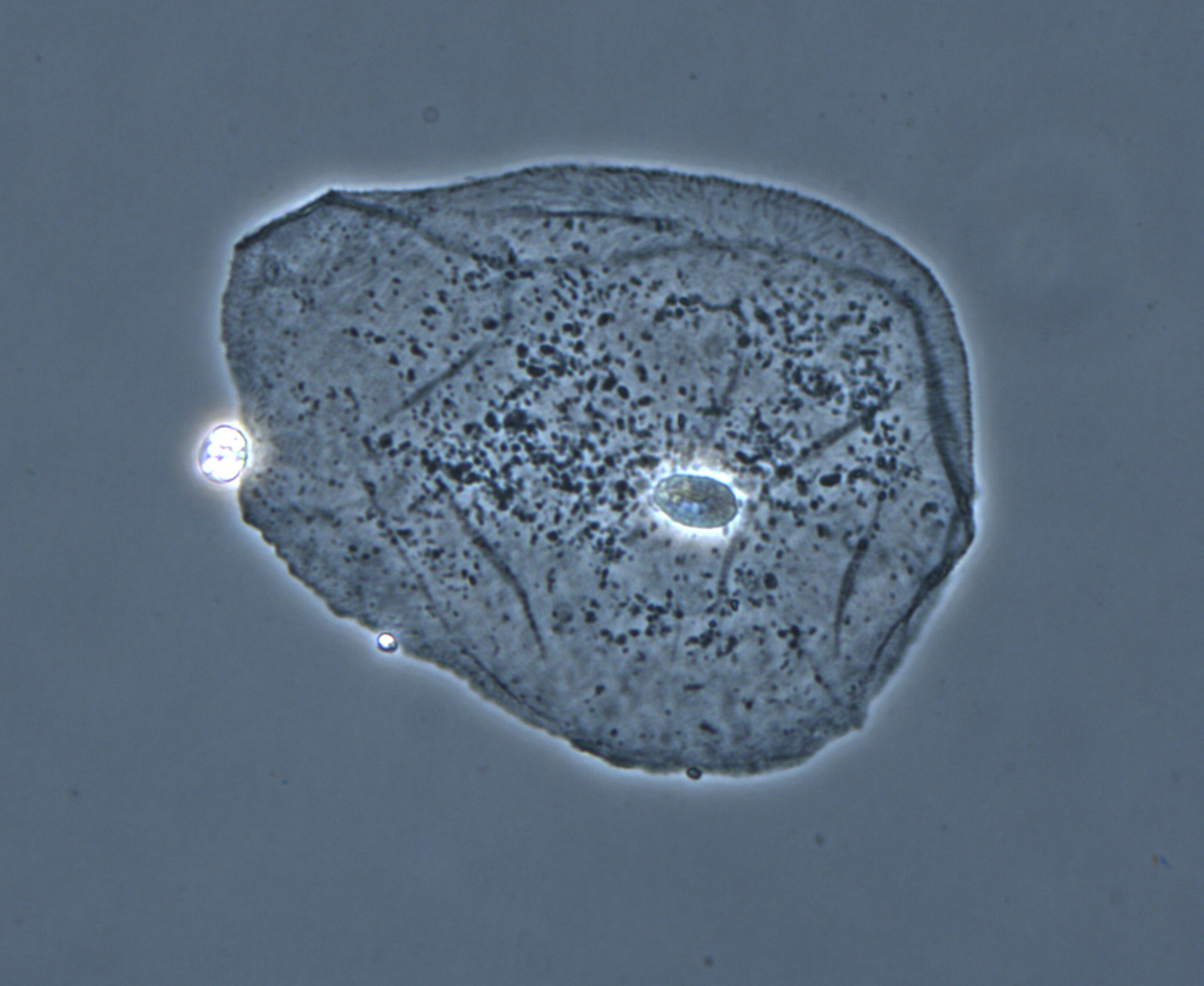 This is a phase contrast image of a cheek cell. It was taken utilizing a 40X planapo objective on a Carl Zeiss Axioimager M1